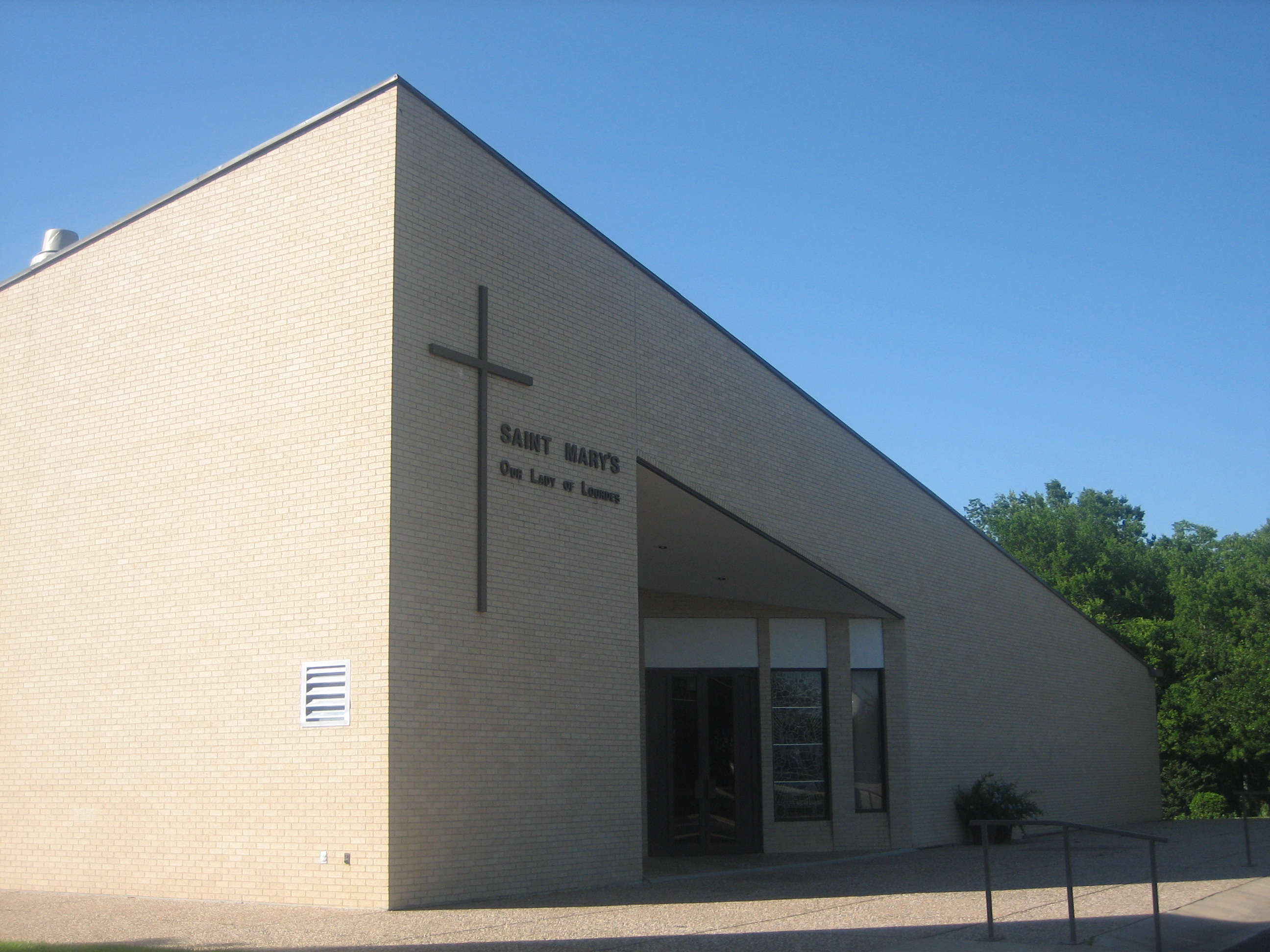 I took photo on May 21, 2009.Billy Hathorn (talk) 03:05, 31 May 2009 (UTC)